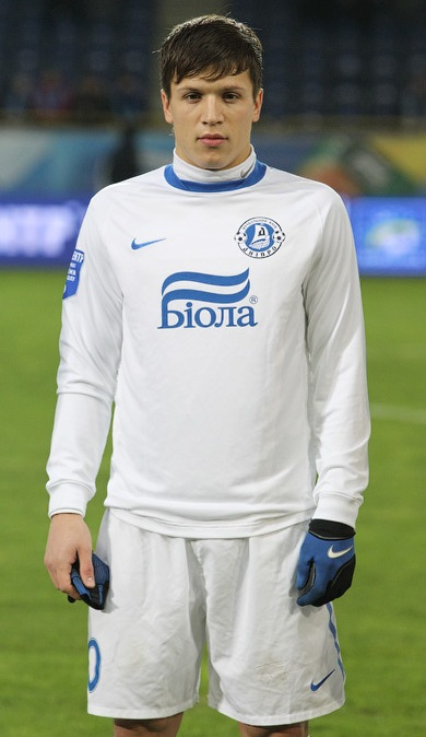 Yevhen Konoplyanka